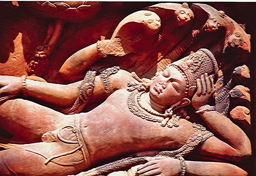 Vishnu dreaming. Photo 2719